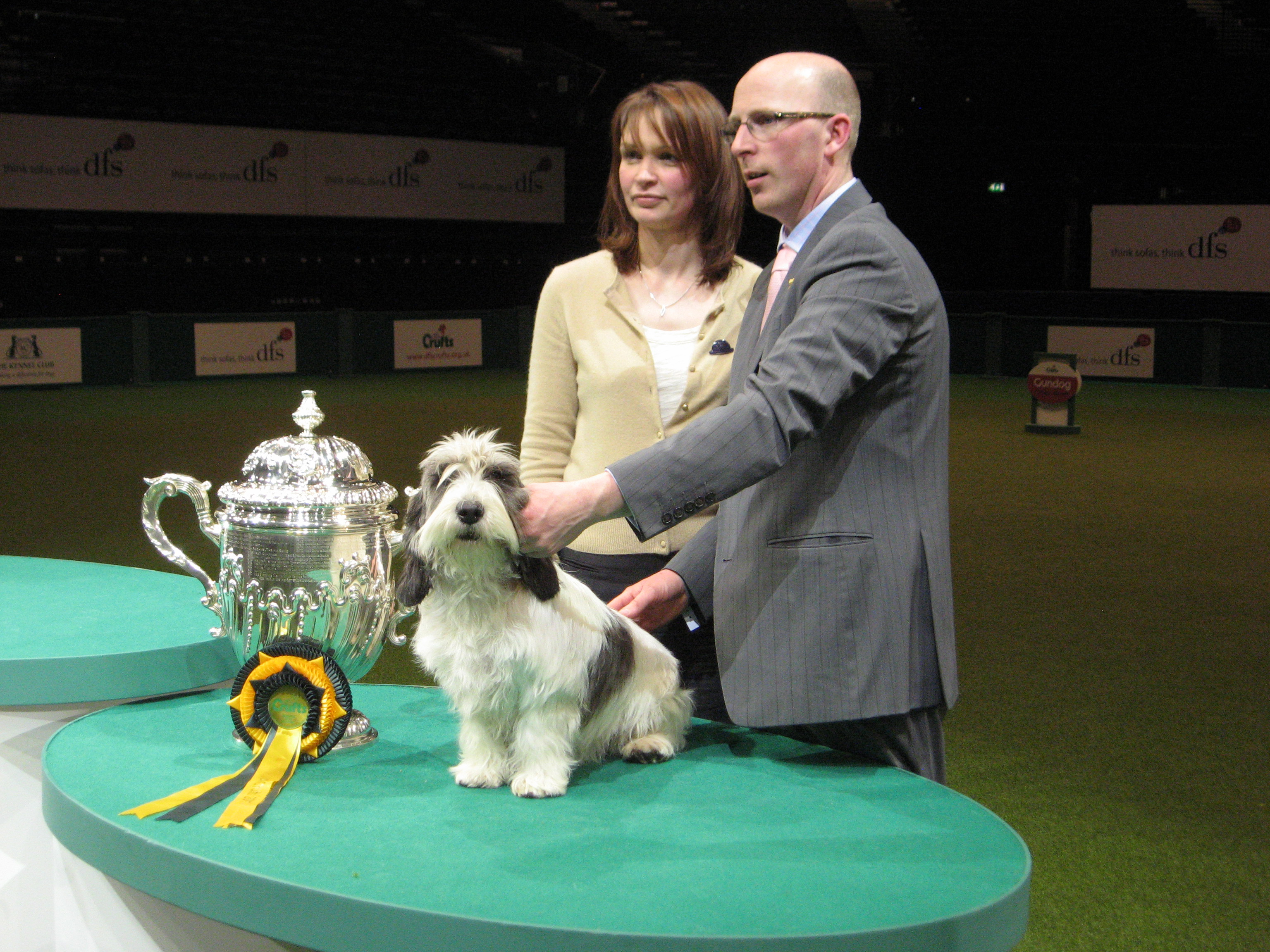 Soletrader Peek A Boo, Reserve Best in Show at Crufts in 2011. The dog won the title two years later.